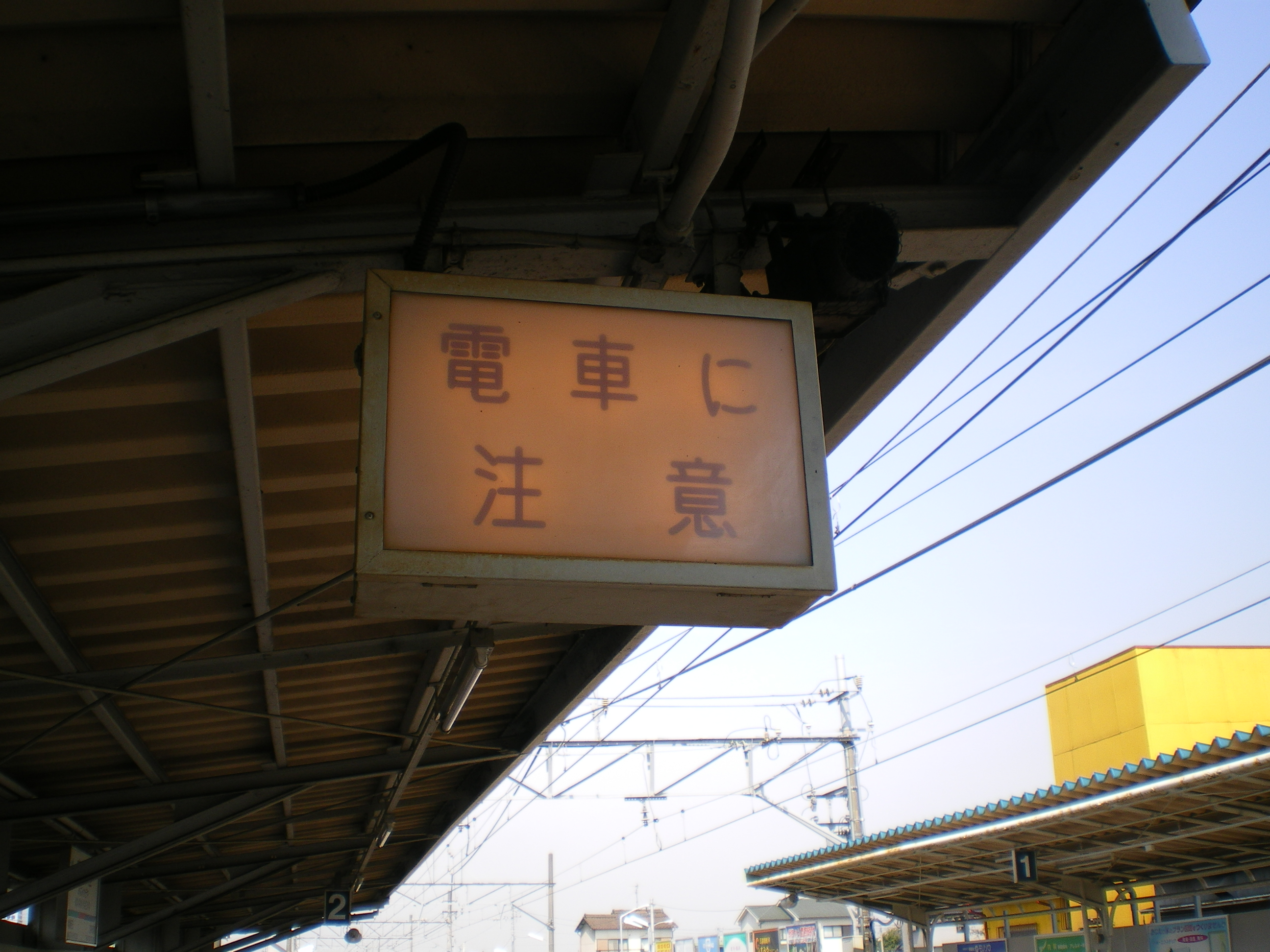 Nagoya Railroad Kowa Line Minami-Kagiya Station Lamp with a paper shade